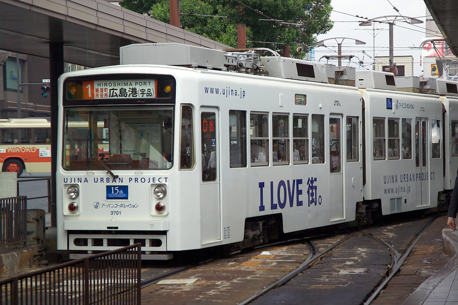 A Hiroden streetcar at Hiroden Hiroshima Station in Hiroshima, Japan. I took this photo and contribute my rights in the file to the public domain; people and organizations retain rights to images in it.